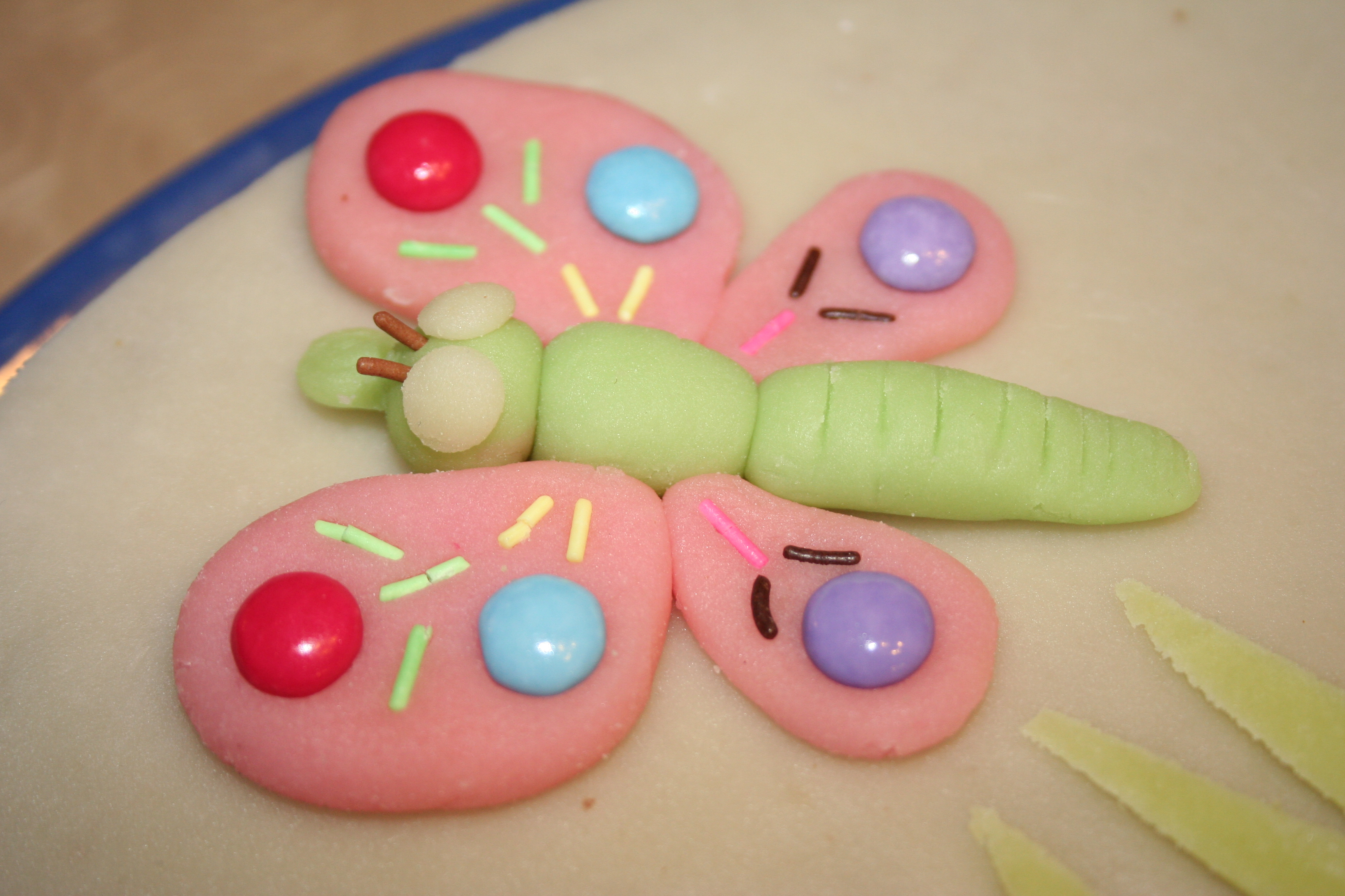 A butterfly in almond paste, decorating a cake.